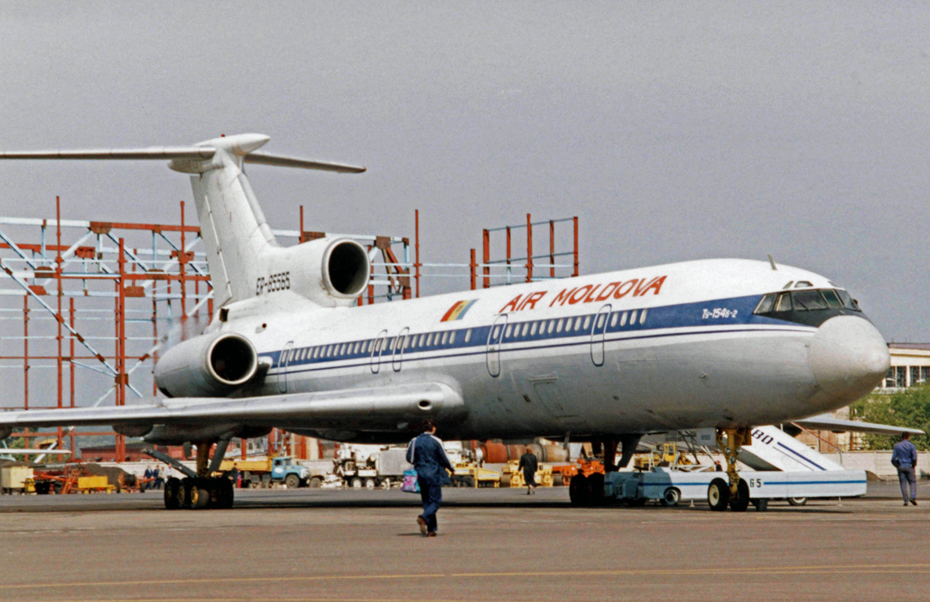 Air Moldova Tupolev Tu-154B at Muscow's Vnukovo airport in 1994.